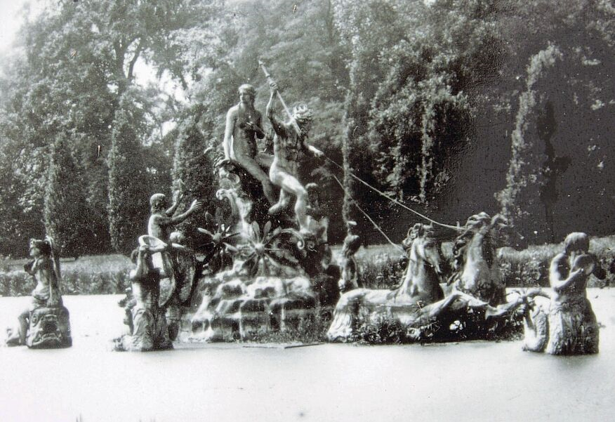 Potsdam, Stadtschloss, Lustgarten, Neptungruppe, Meeresgott Neptun mit seiner Frau der Meeresgöttin Thetis (oder Amphitrite genannt) und blasende Tritonen (3)